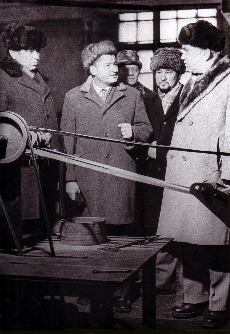 Aleksander Adolfovich Burba (right) is discussing progress in using of the research results obtained at the Orenburg Polytechnic Institute at the industrial factory (Orenburg, 1981).